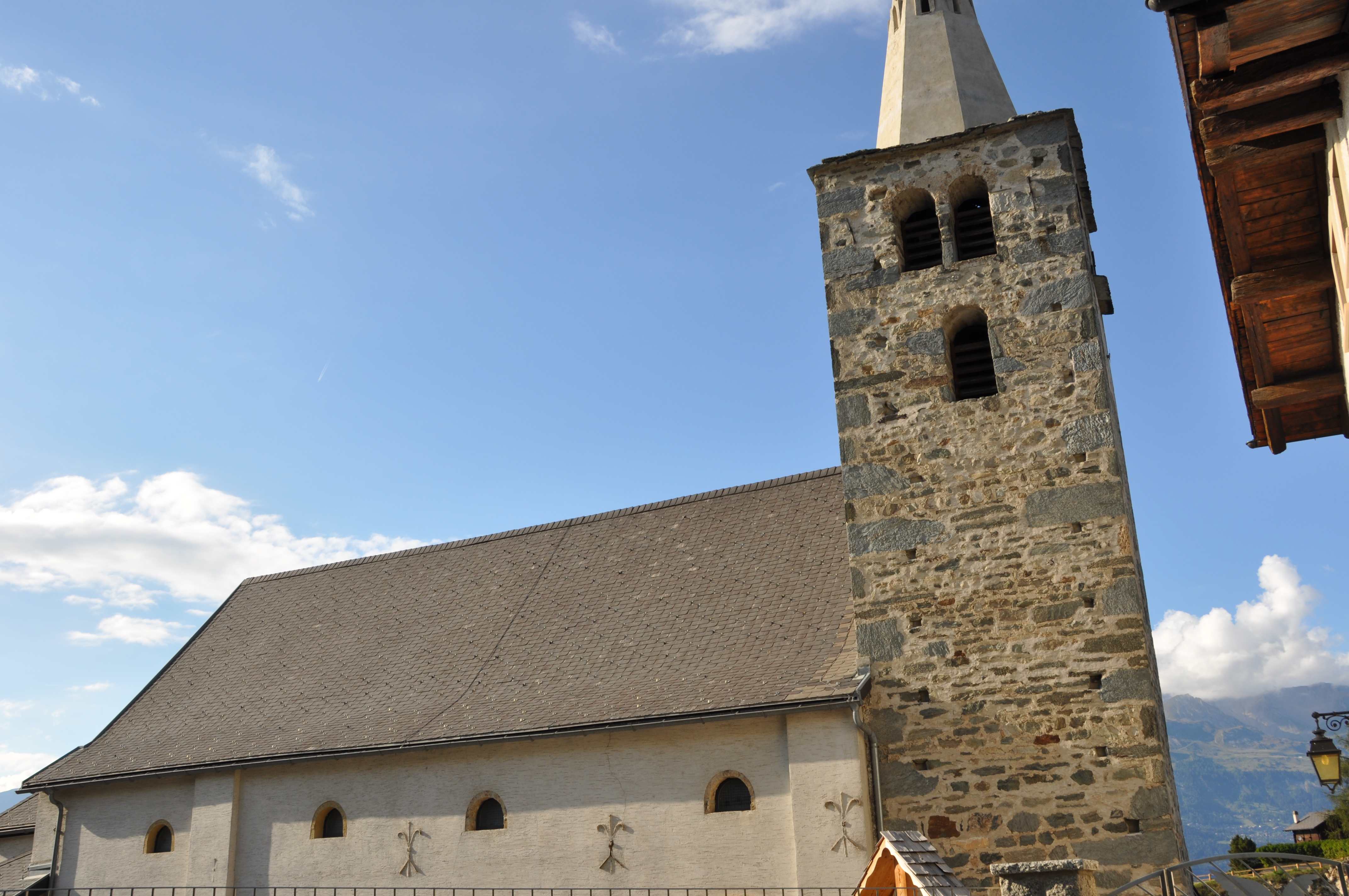 Église Saint-Maurice et Saint-Gothard (clocher et autels)